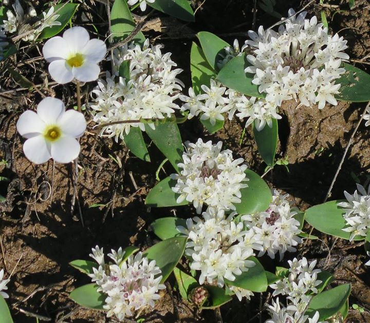 Lachenalia maughanii (W.F.Barker) J.C.Manning & Goldblatt - Nieuwoudtville, South Africa